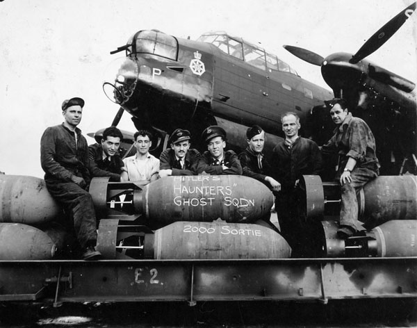 Original image found on the Library and Archives Canada website - The following is the image description found at [1] Aircrew and groundcrew of No. 428 (Ghost) Squadron, RCAF, with Avro Lancaster B.X aircraft KB760 NA:P "P-Peter," [graphic material] : which flew the squadron’s 2,000th sortie, a raid on Bremen, Germany. Date(s): August 18, 1944 , Place of publication: Middleton St George, England, Scope and content (L-R at centre): Flying Officers W.C. Chester and A.J. Carter. Terms of use Credit: Canada. Department of National Defence collection / Library and Archives Canada / e005176190 Restrictions on use: Nil Copyright: Expired Additional name(s) Photographer Unknown Reference Numbers Item no. (creator): 86/89, p. 60 Other accession no.: 1996-212 NPC Additional Information Subject heading Airforce Royal Canadian Airforce (R.C.A.F.) Language of material no language Source. Government